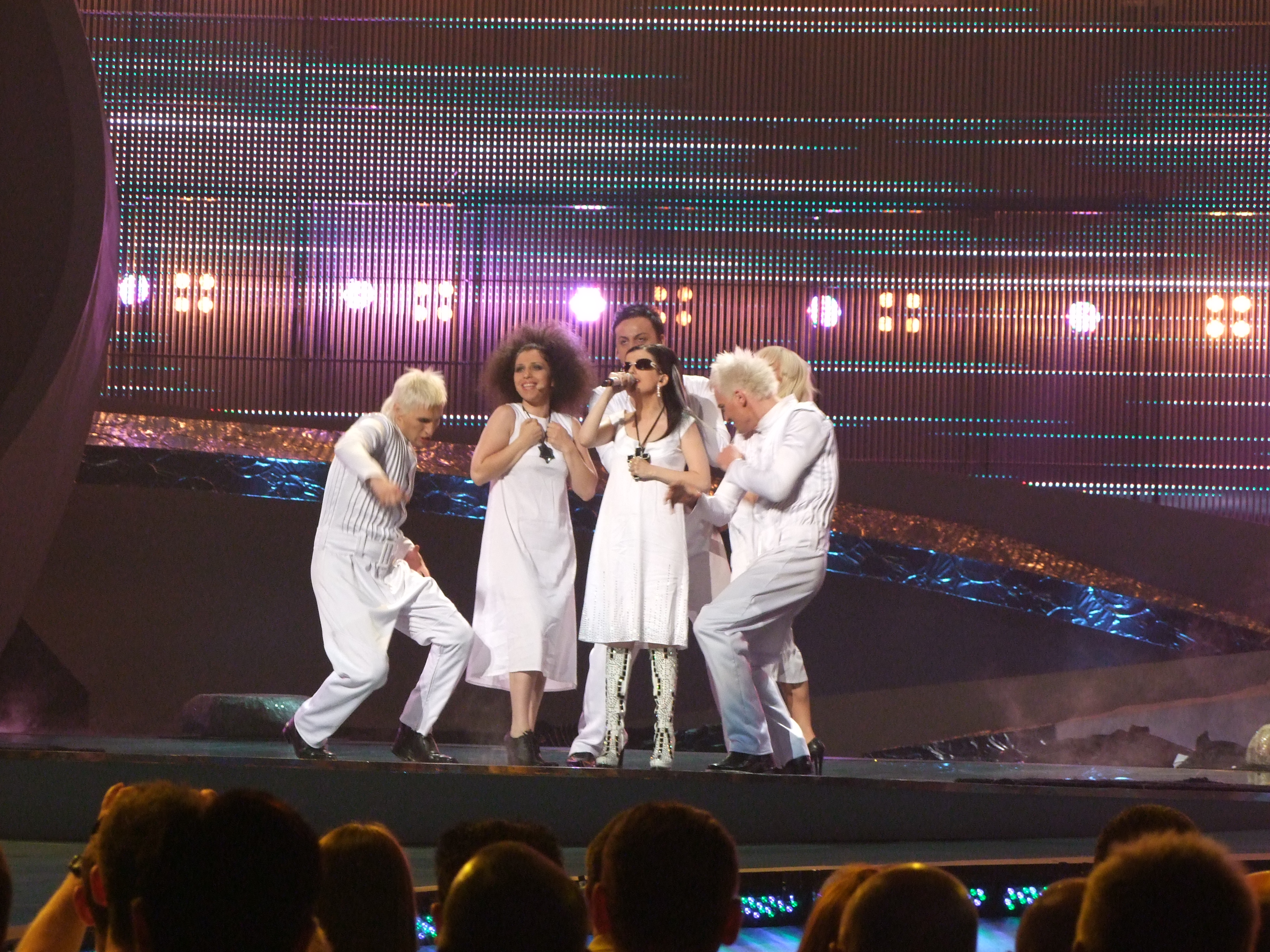 Singer Diana Gurtskaya of Georgia at the final of the 2008 Eurovision Song Contest in Belgrade, Serbia.